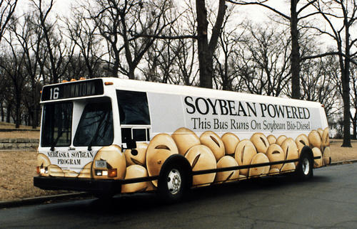 Bus running on soybean biodiesel. U.S. Department of Energy: Energy Efficiency and Renewable Energy ( front of the bus says: "Nebraska Soybean Program" and the bus marquee says "Downtown".